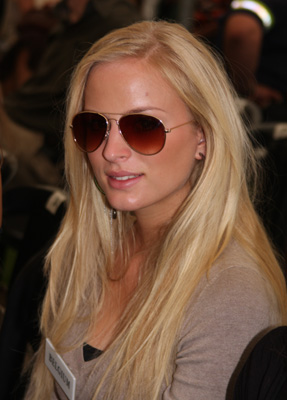 Miss Belgium 2008 Alizée Poulicek during Miss World 08